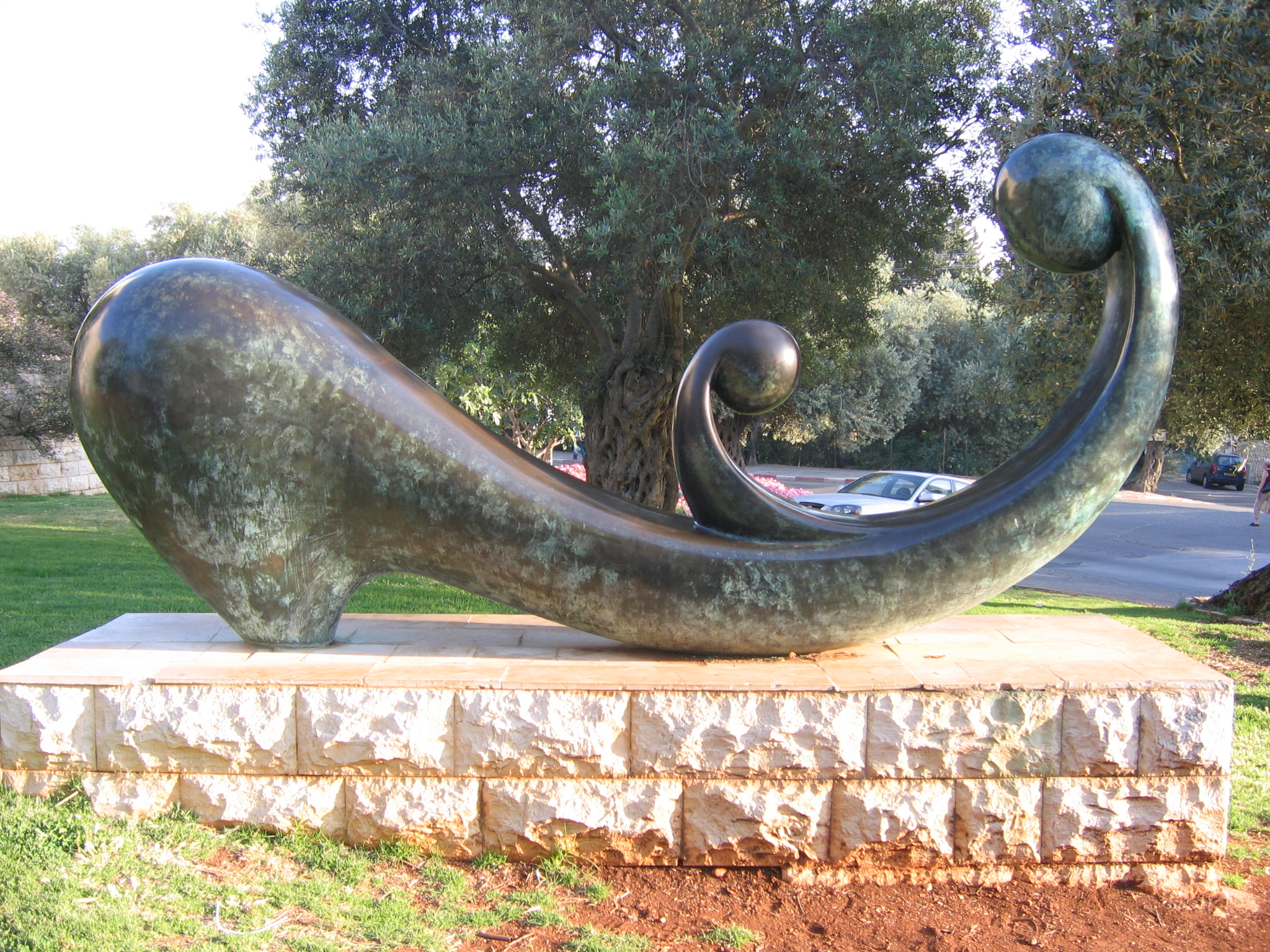 A sculpture in Safed, Israel. Taken by Beny Shlevich on May 29th, 2006.